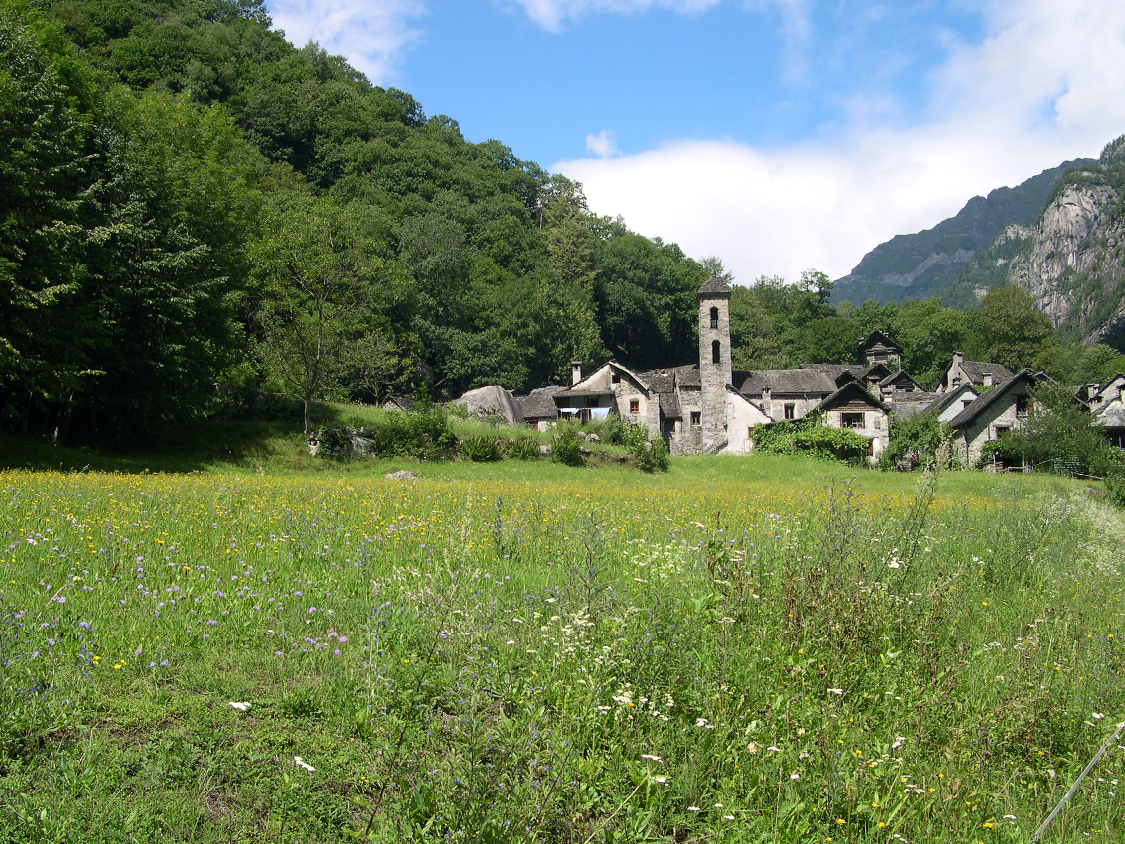 Old village in the Valle Maggio, in canton Ticino, Switzerland